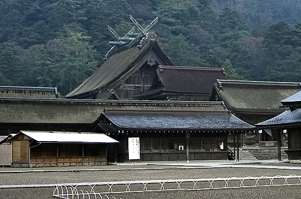 The "honden" (sanctuary) at Izumo Taisha（出雲大社）